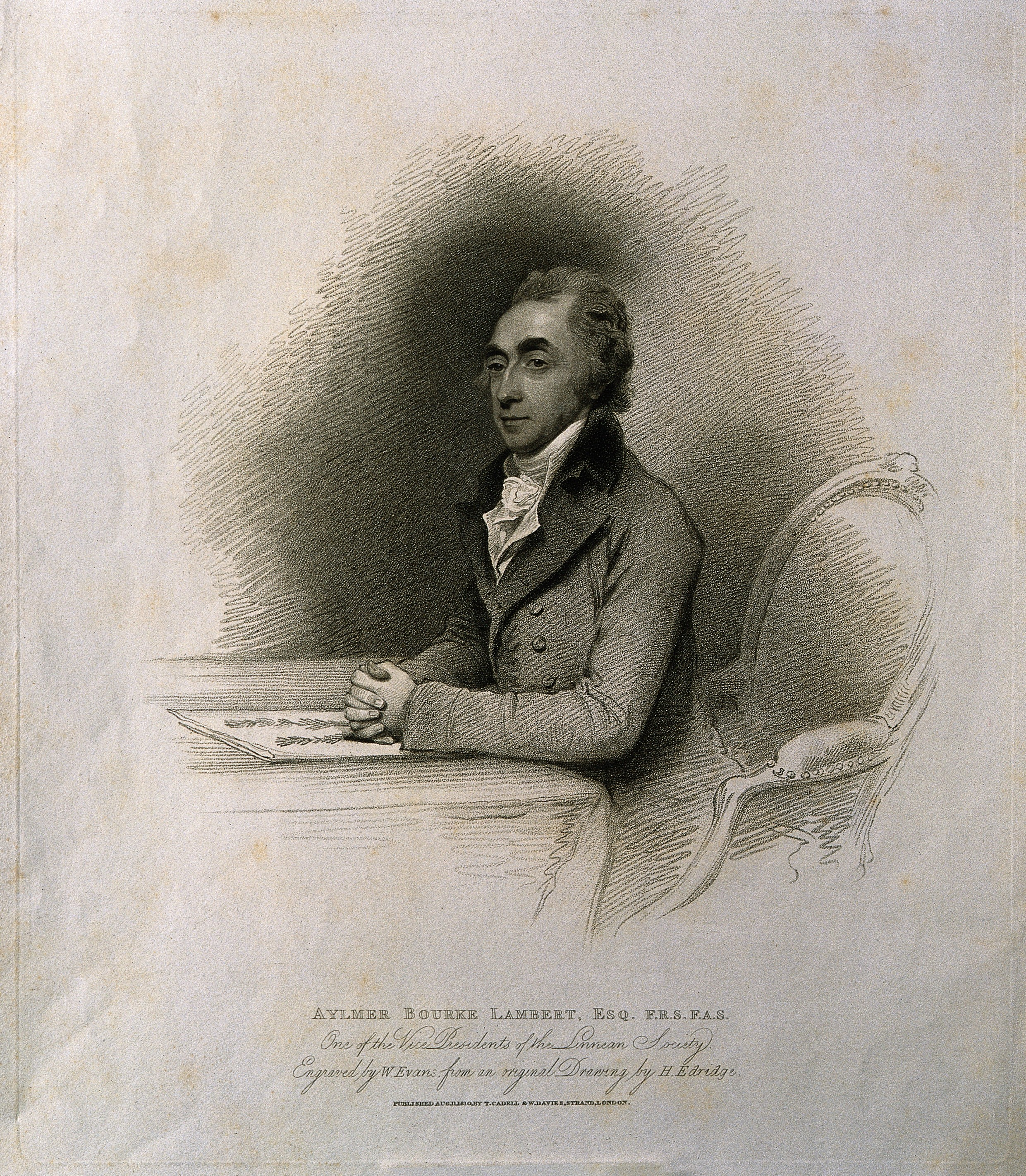 Aylmer Bourke Lambert. Stipple engraving by W. Evans, 1810, after H. Edridge. Iconographic Collections Keywords: portrait prints; Aylmer Bourke Lambert; stipple prints